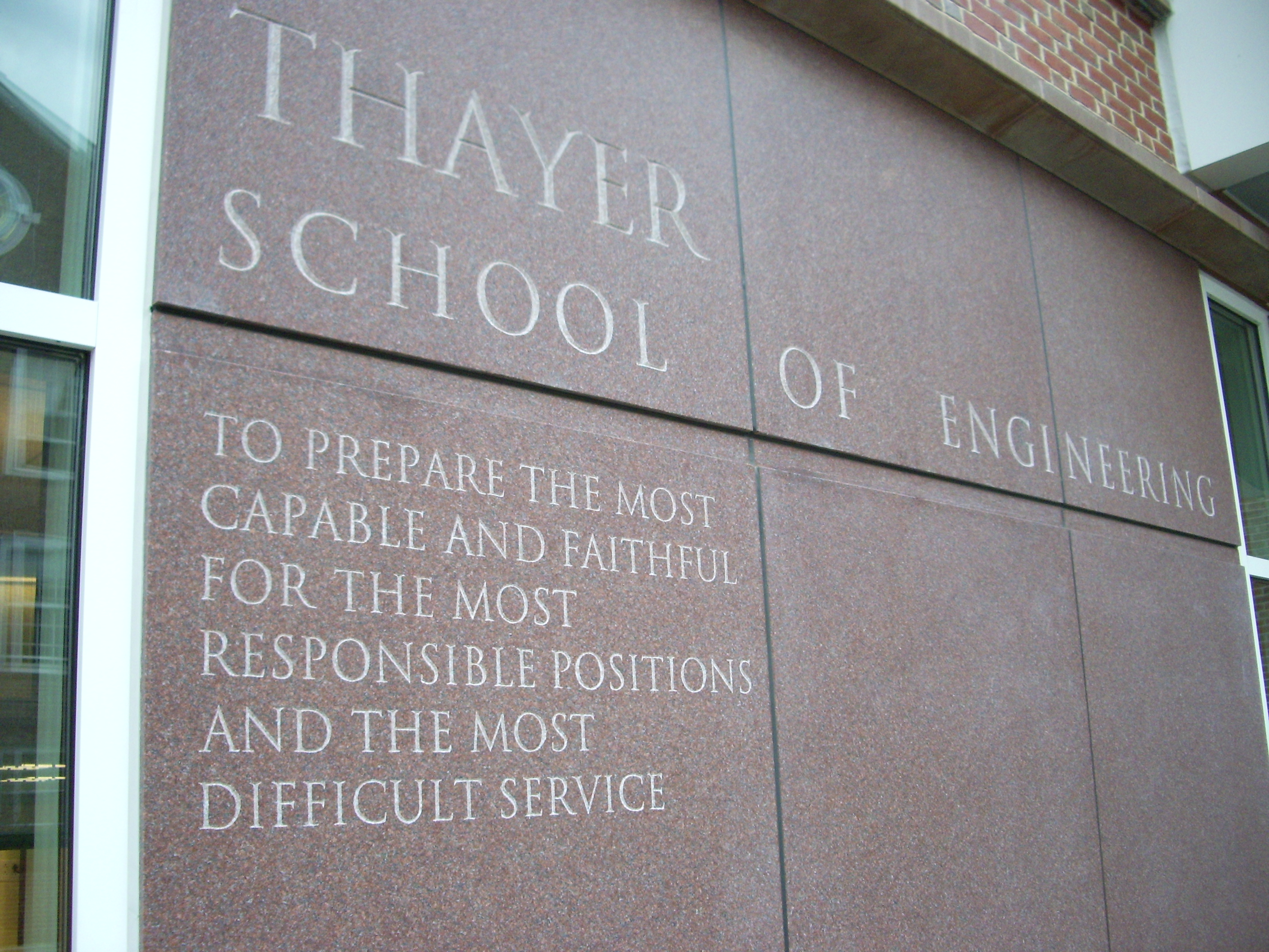 An inscription outside the Thayer School of Engineering. The quotation is from Sylvanus Thayer, the founder of the school (Engineering Studies. Engineering at Dartmouth. Thayer School of Engineering. Retrieved on 2007-11-17.).